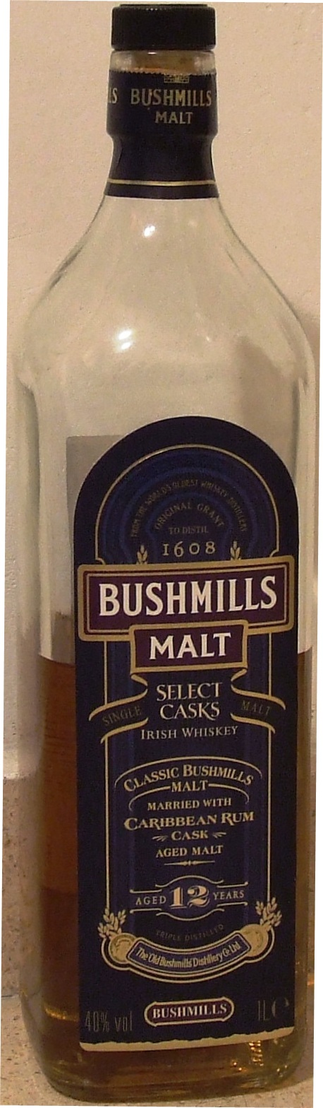 Bushmills Irish whiskey